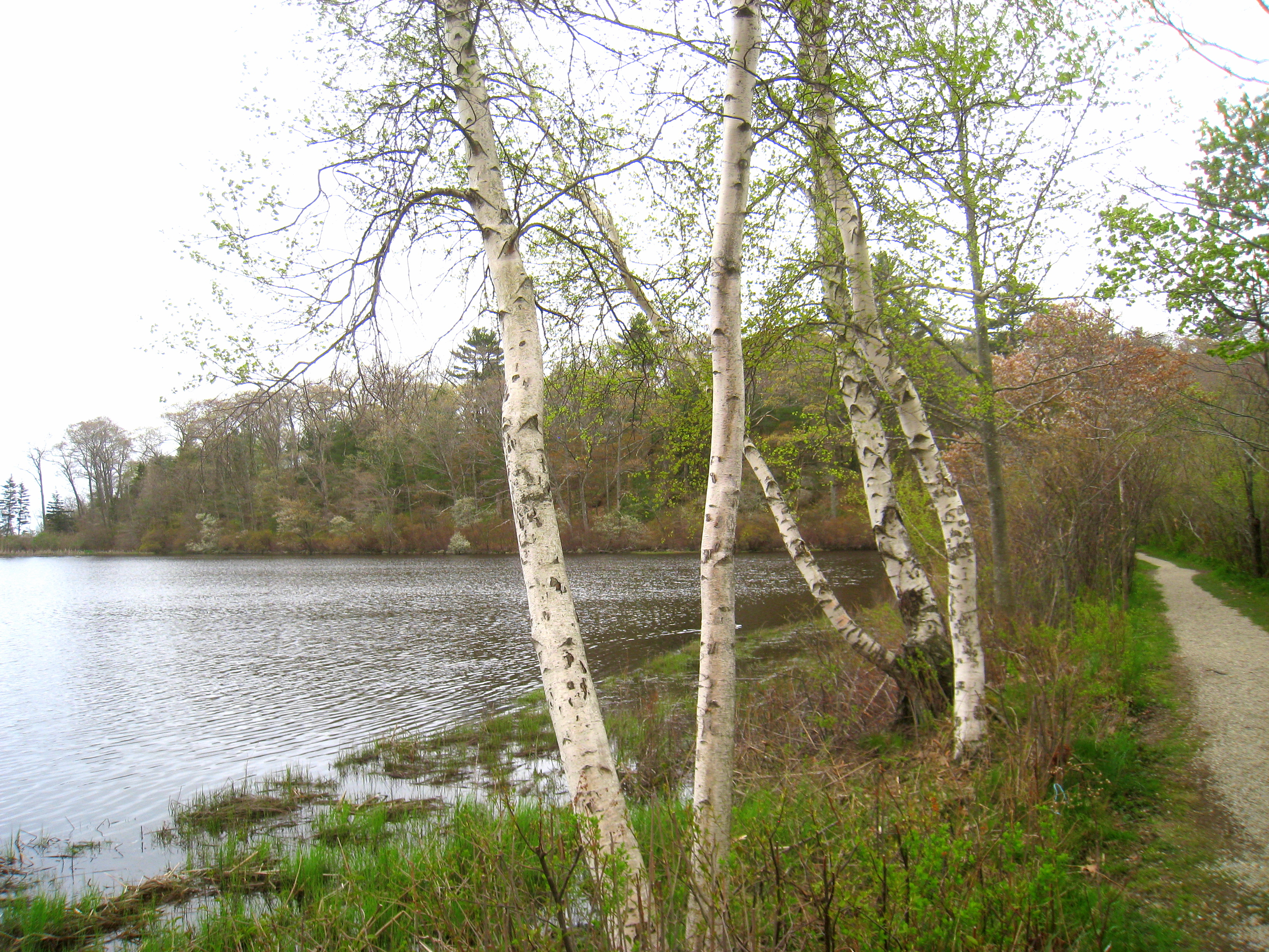 Coolidge Reservation, Manchester-by-the-Sea, Massachusetts, USA. Maintained by the Trustees of Reservations.